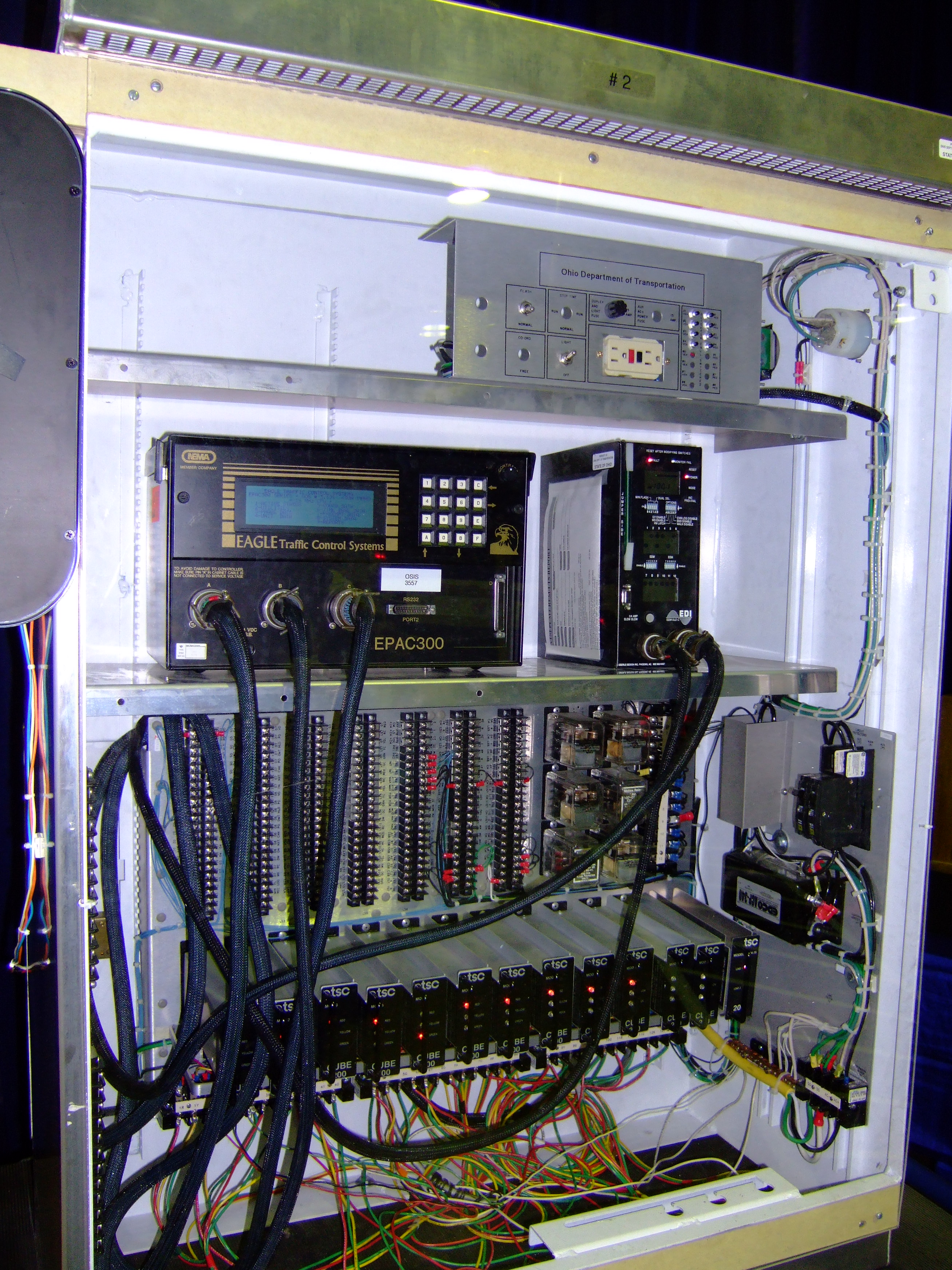 An Ohio Department of Transportation Traffic control box. Picture taken at the 2007 Ohio State Fair. Self made photo.